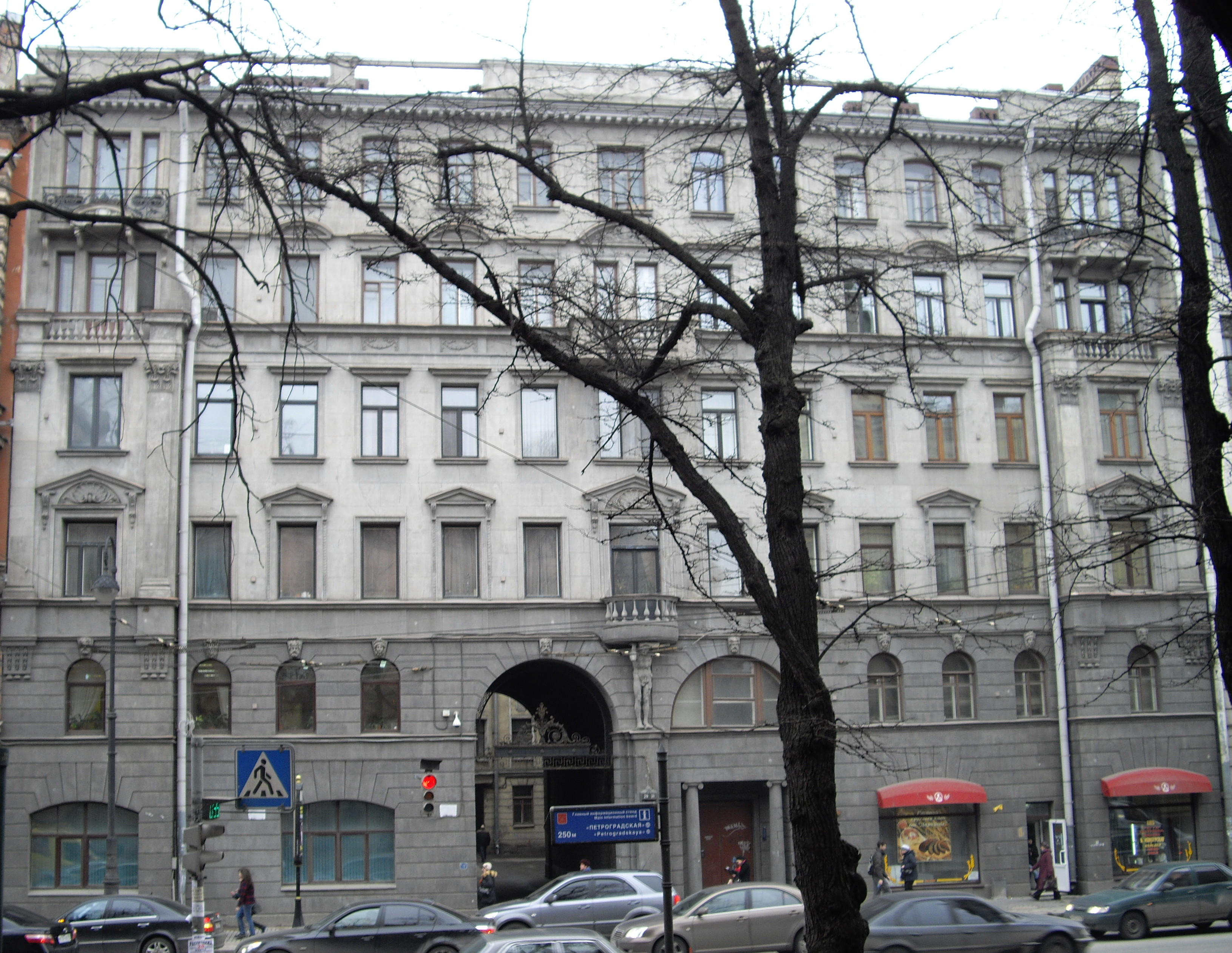 Zhigunov House (29, Kamennoostrovsky Prospect, Saint-Petersburg, Russia; architect Joseph Dolginov, 1912-1914).